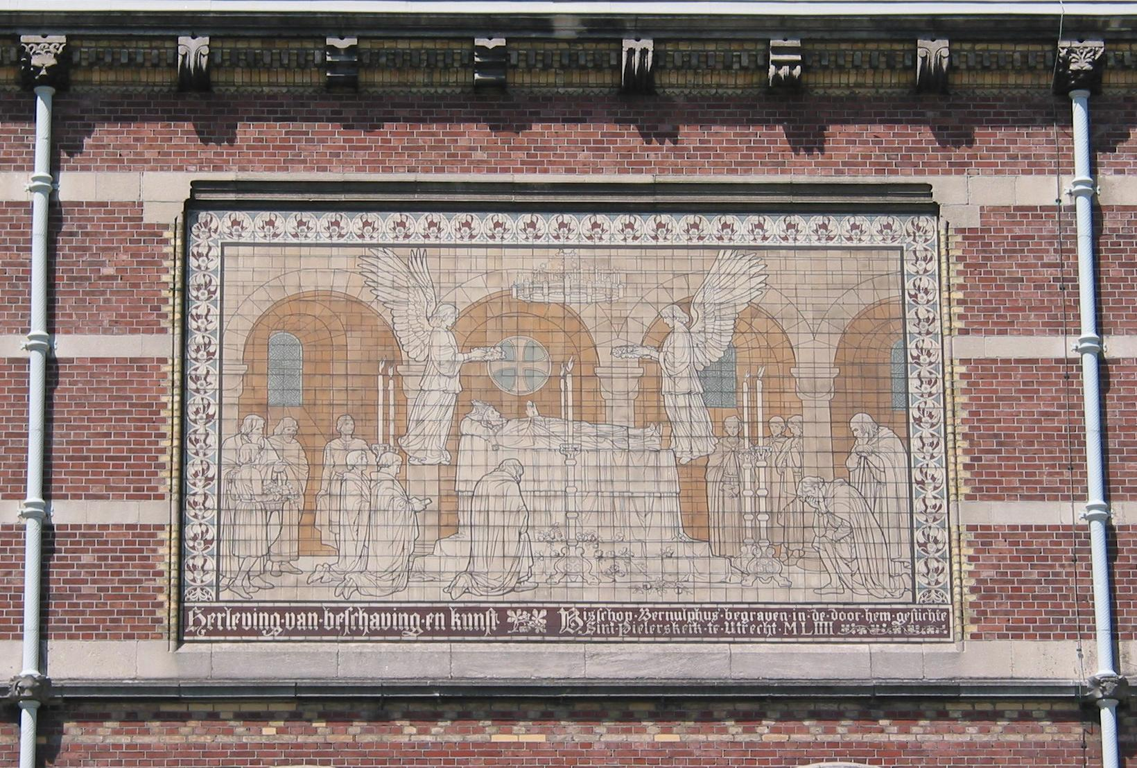 Tile picture 'Revival of civilization and art. Bishop Bernulphus burried in the church of Saint Peter in Utrecht founded by himself. MLIIII [1054]'.